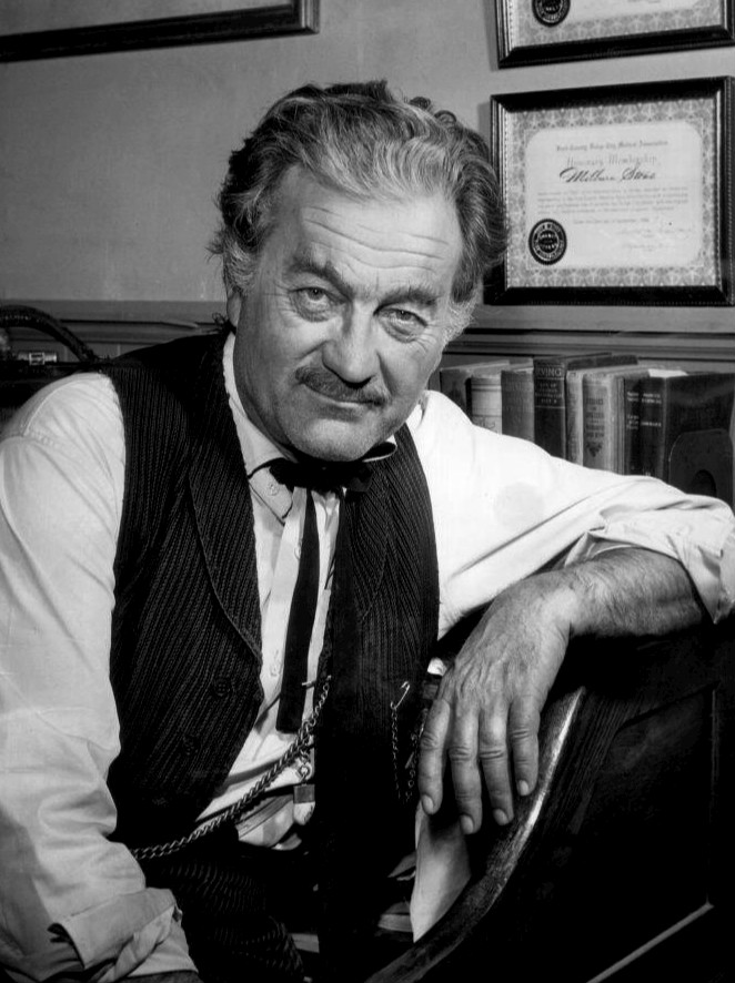 Photo of Milburn Stone as Doc Adams from the television program Gunsmoke.